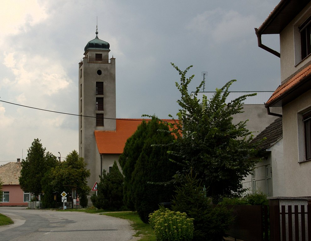 Church in Šajdíkove Humence